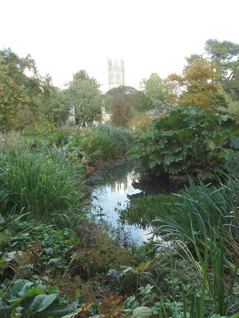 Pond in Oxford Botanic Garden. The pond is at the southern tip of the garden, between Christ Church Meadow and the Cherwell. View to the tower of Magdalen College.